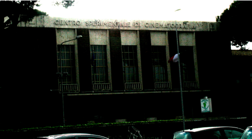 The Centro Sperimentale di Cinematografia (Italian National Film School) in Rome.